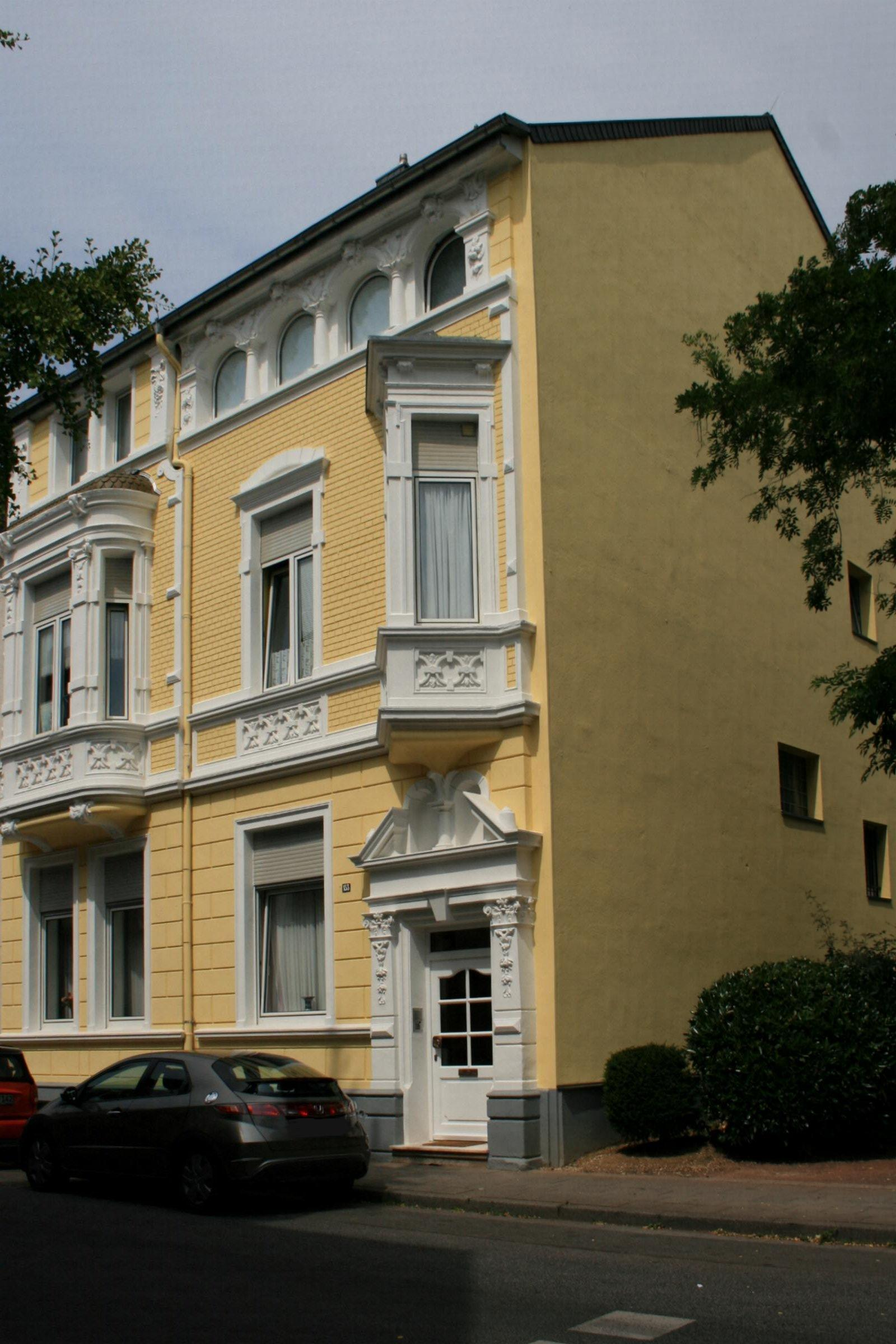 Cultural heritage monument No. M 040 in Mönchengladbach